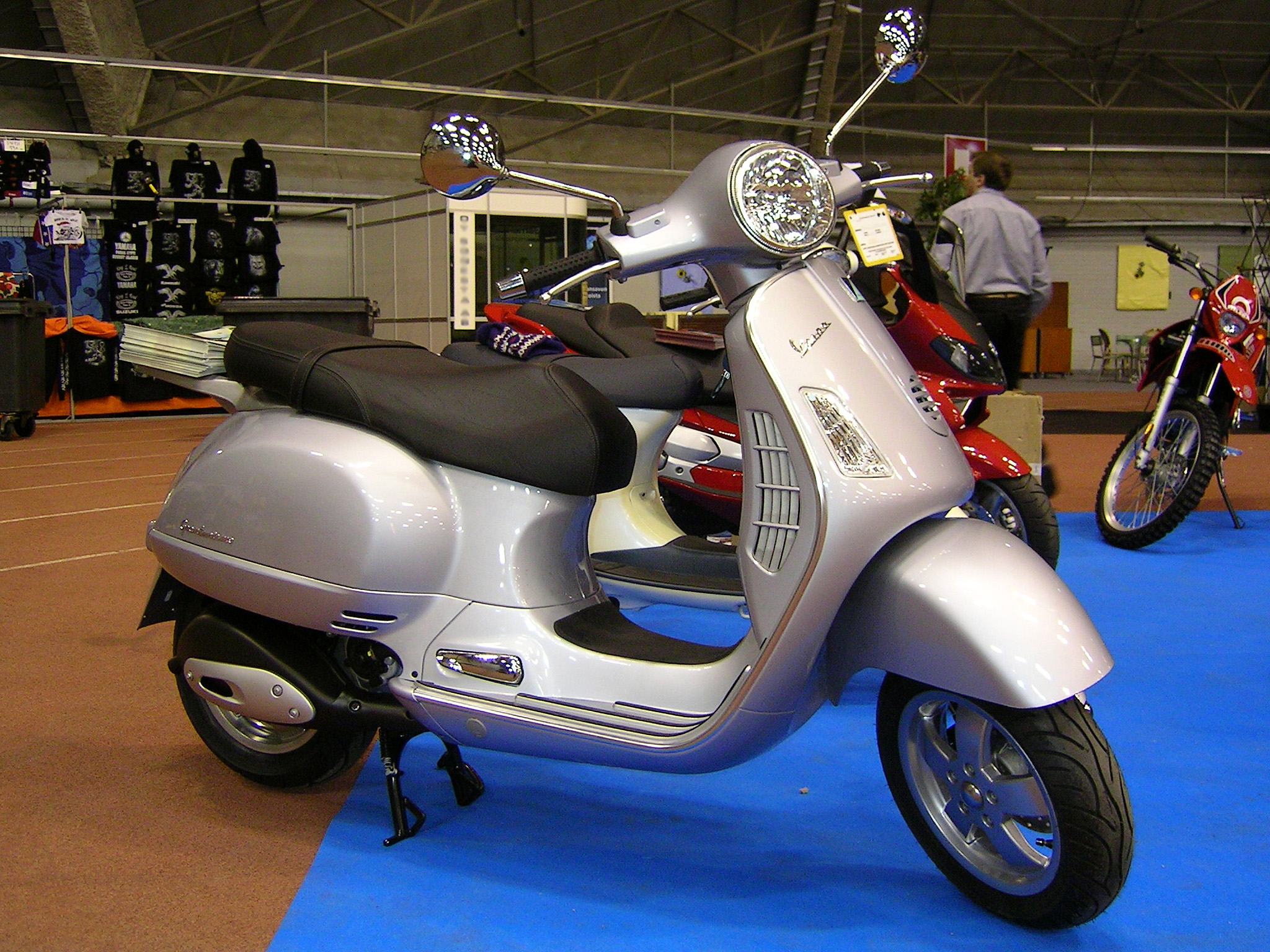 A new line of big frame Vespa scooters, GT 200 Granturismo, was introduced in 2003.